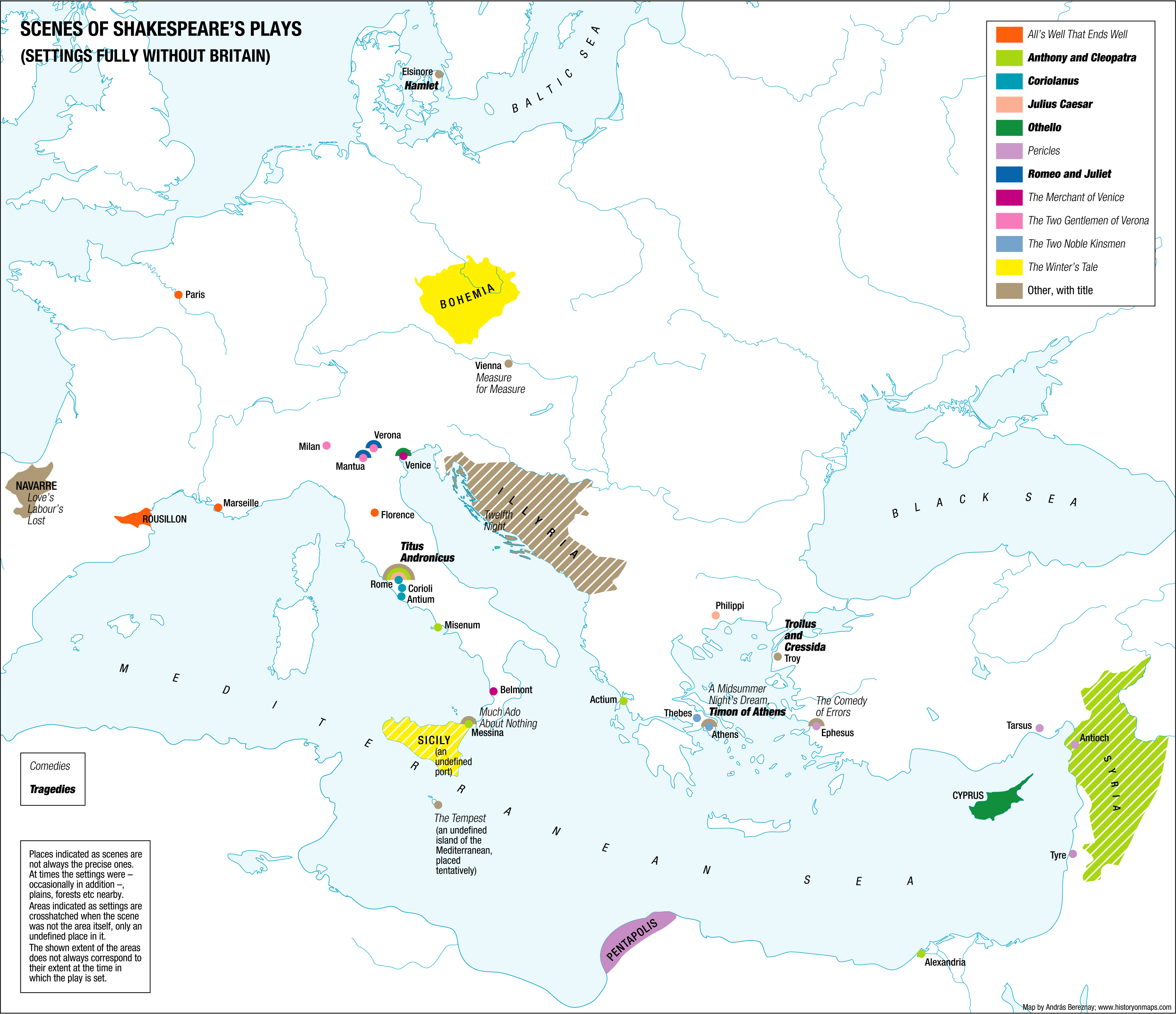 map of Shakespeare's plays with scenes abroad